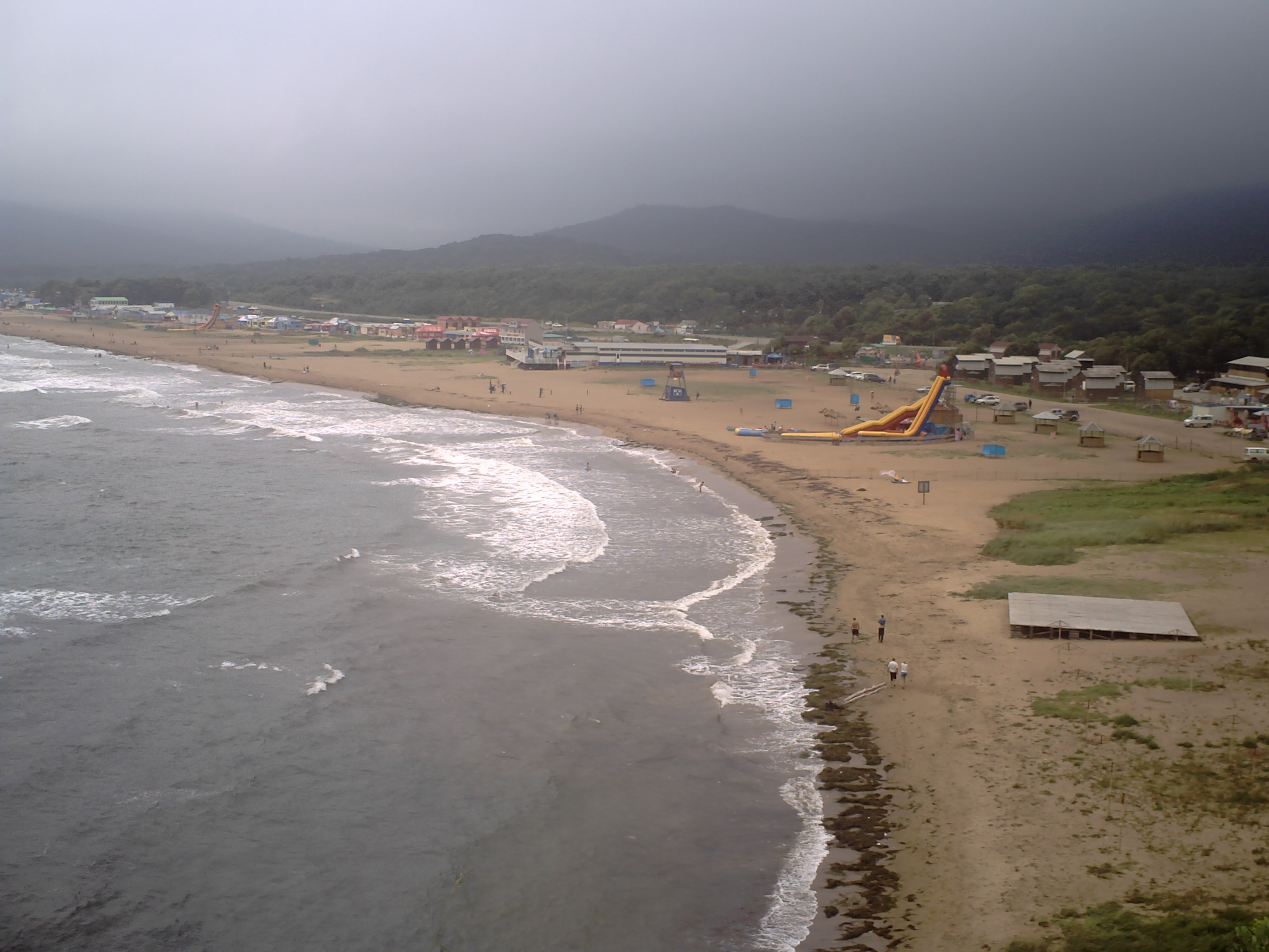 Azure_Cove_(Shamora) (Summer)